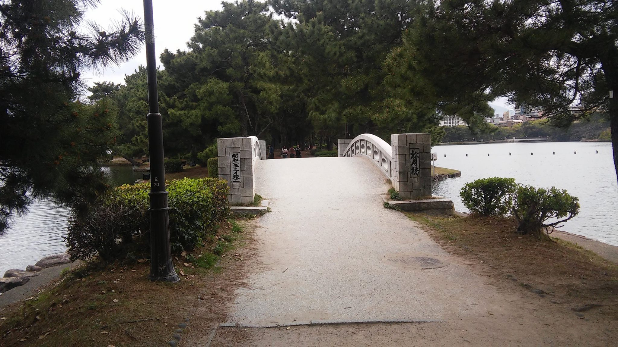 View of the Shogetsu bridge in Ōhori park